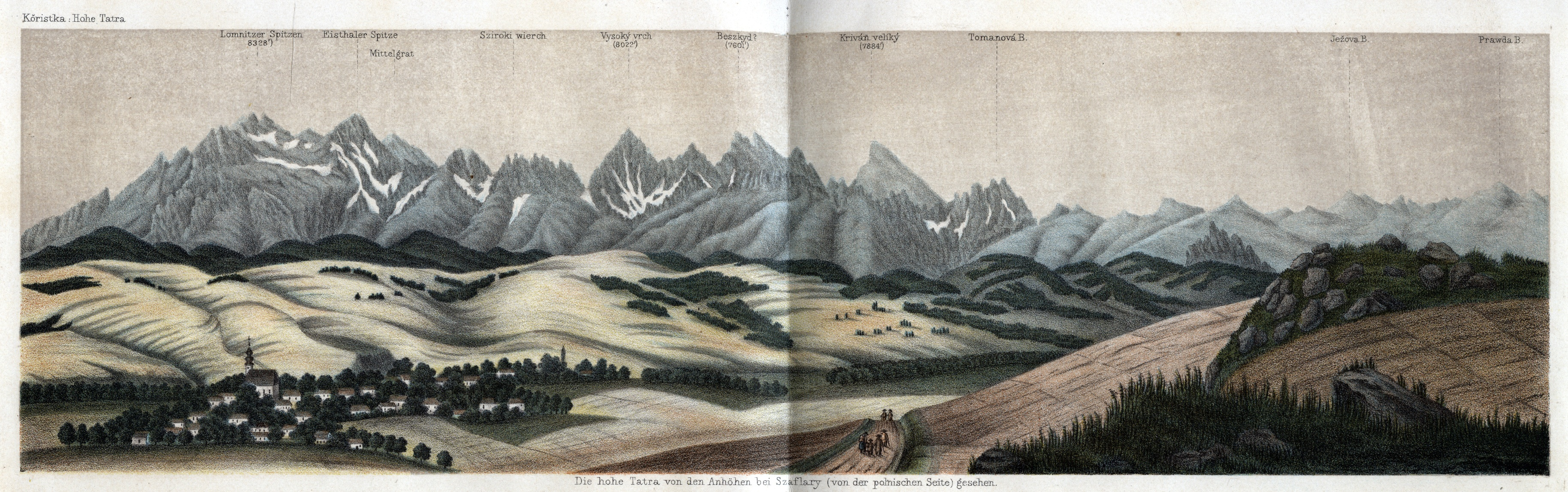 High Tatras from the Polish side, 1865